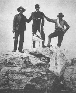 John Shive, Franklin Spalding, and Frank Petersen on the summit of the Grand Teton on the first certain ascent, 1898. William O. Owen